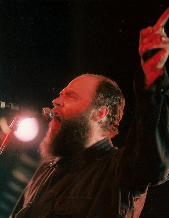 Daniel Higgs singing. A band member of Lungfish.